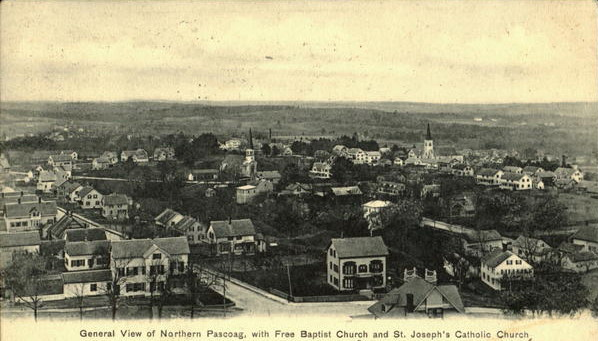 1906 Postcard General view of Northern Pascoag, with free Baptist Church and St. Joseph's Catholic Church